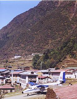 View across Lukla, with airstrip in the foreground. Image taken with Minolta MAXXUM SPxi auto-focus SLR, fitted with a Minolta 35-80 mm power zoom lens.